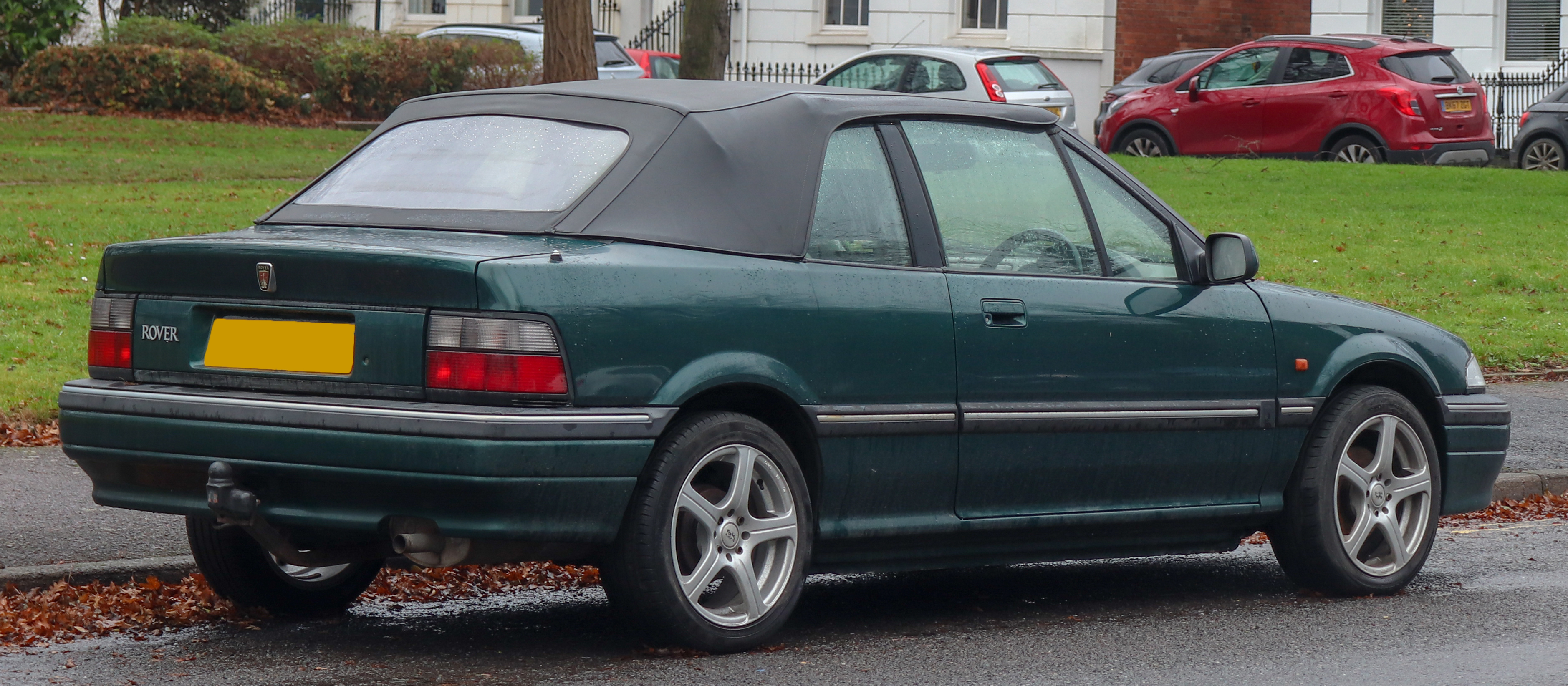 1998 Rover 216 Cabriolet Automatic 1.6 Rear Taken in Leamington Spa